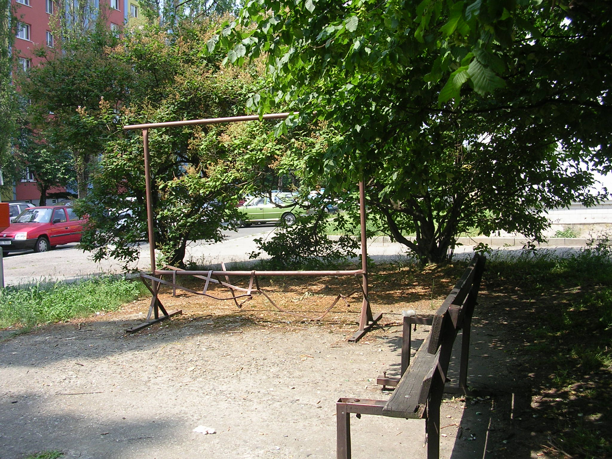 Záběhlice, Prague, the Czech Republic. - Google Maps - Google Earth